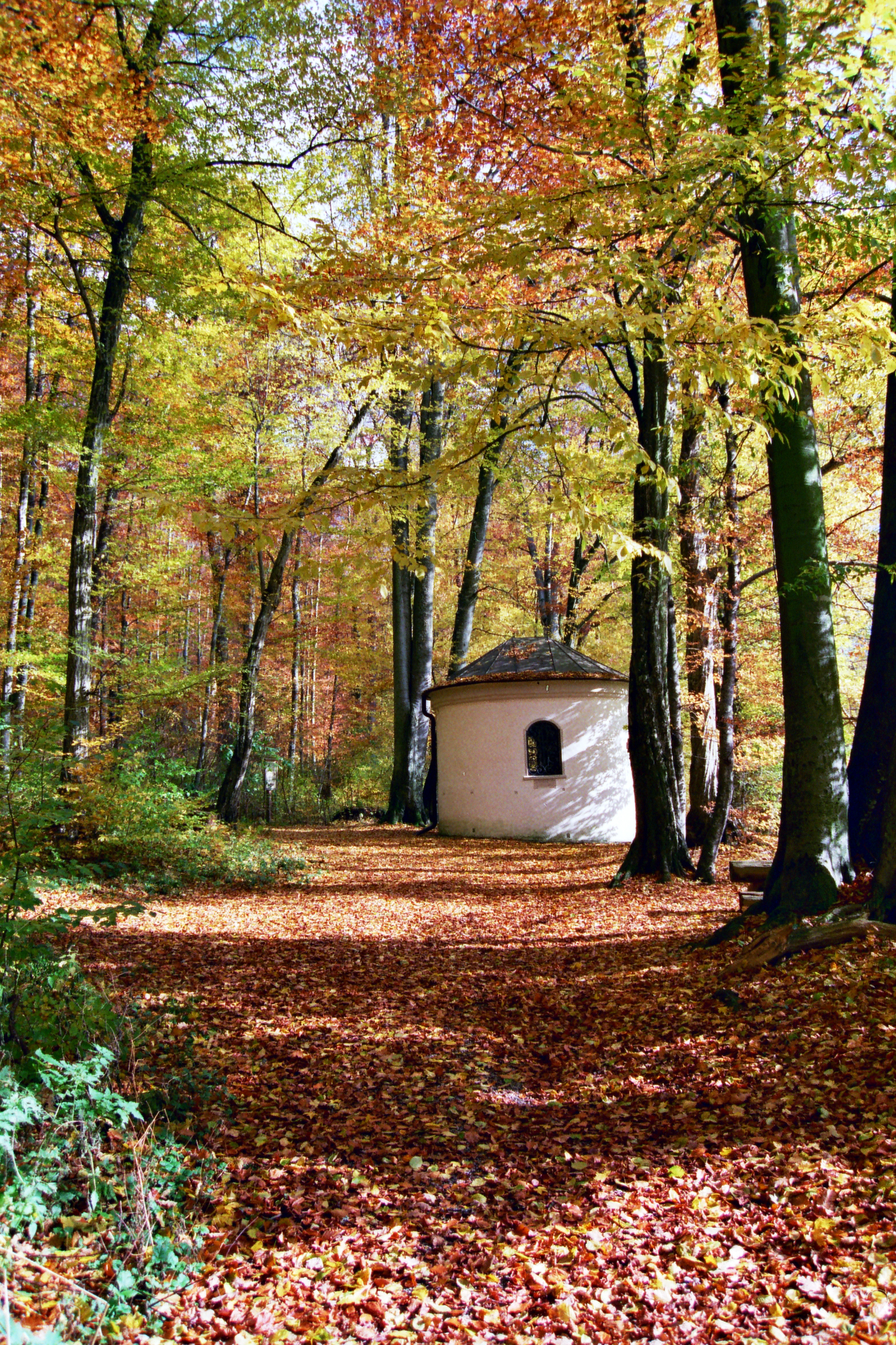 Lexenrieder Kapelle from west